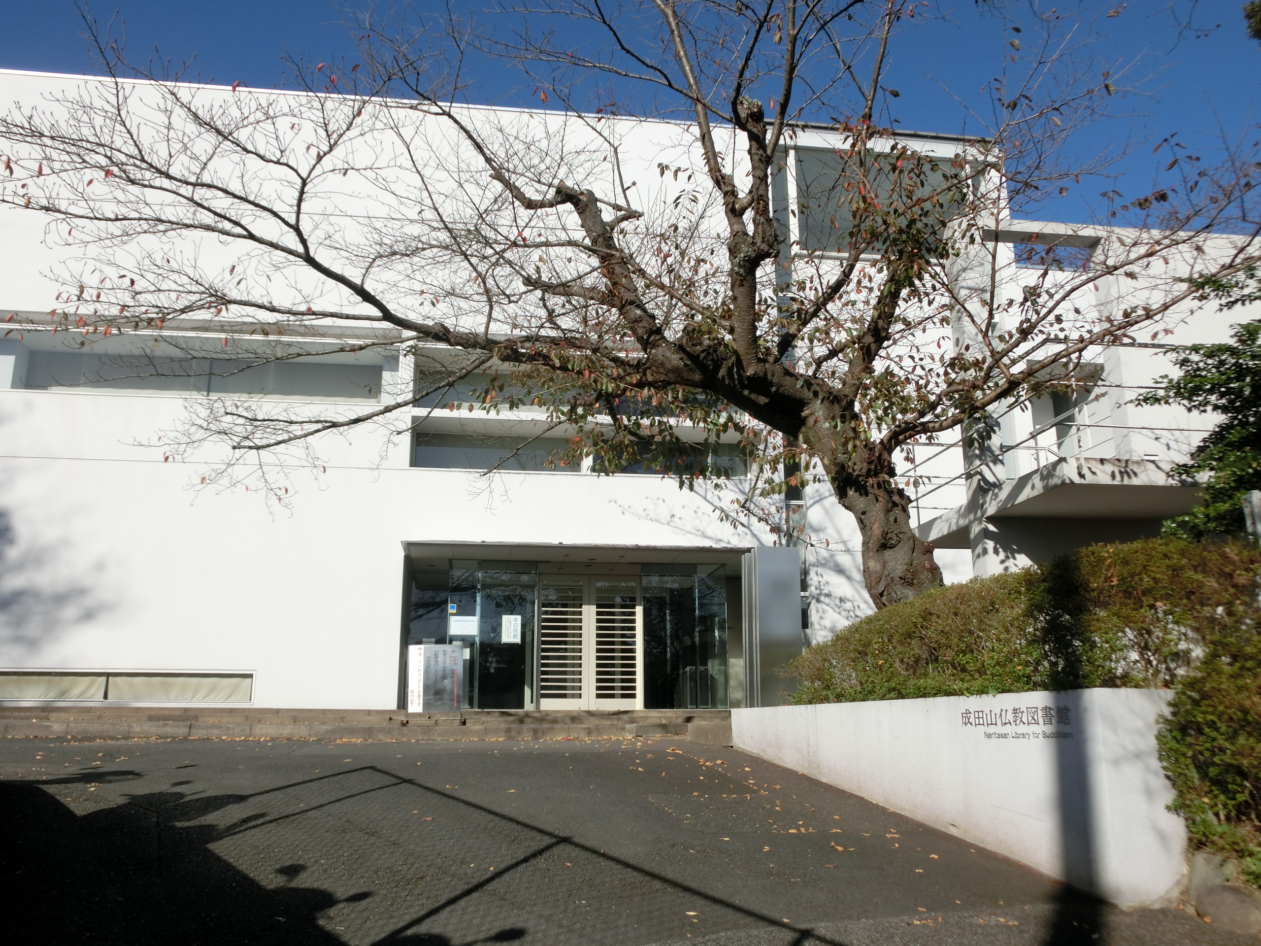 Naritasan Library for Buddhism